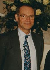 Jeffrey Archer